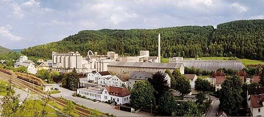 Photo of a former cement company located in the town Blaubeuren, Germany.